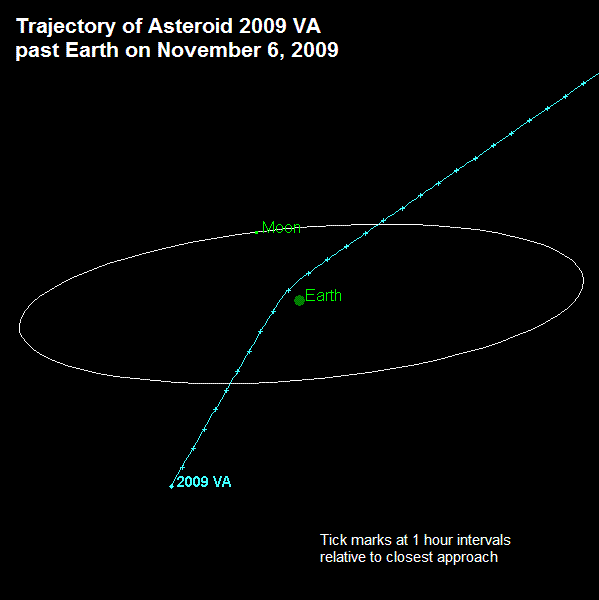 Small Asteroid 2009 VA Whizzes By The Earth